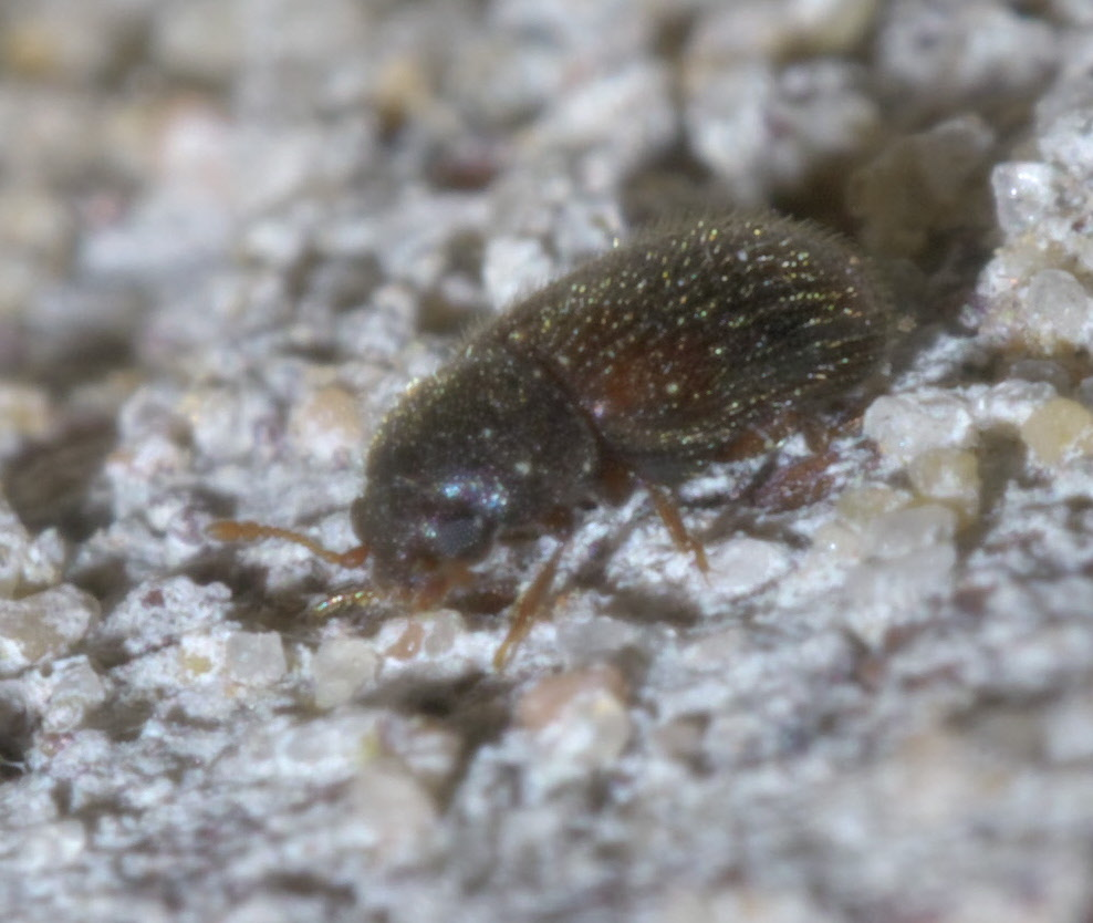 Sphindus americanus, Genus: Cryptic Slime Mold Beetles, ID Confidence: 98